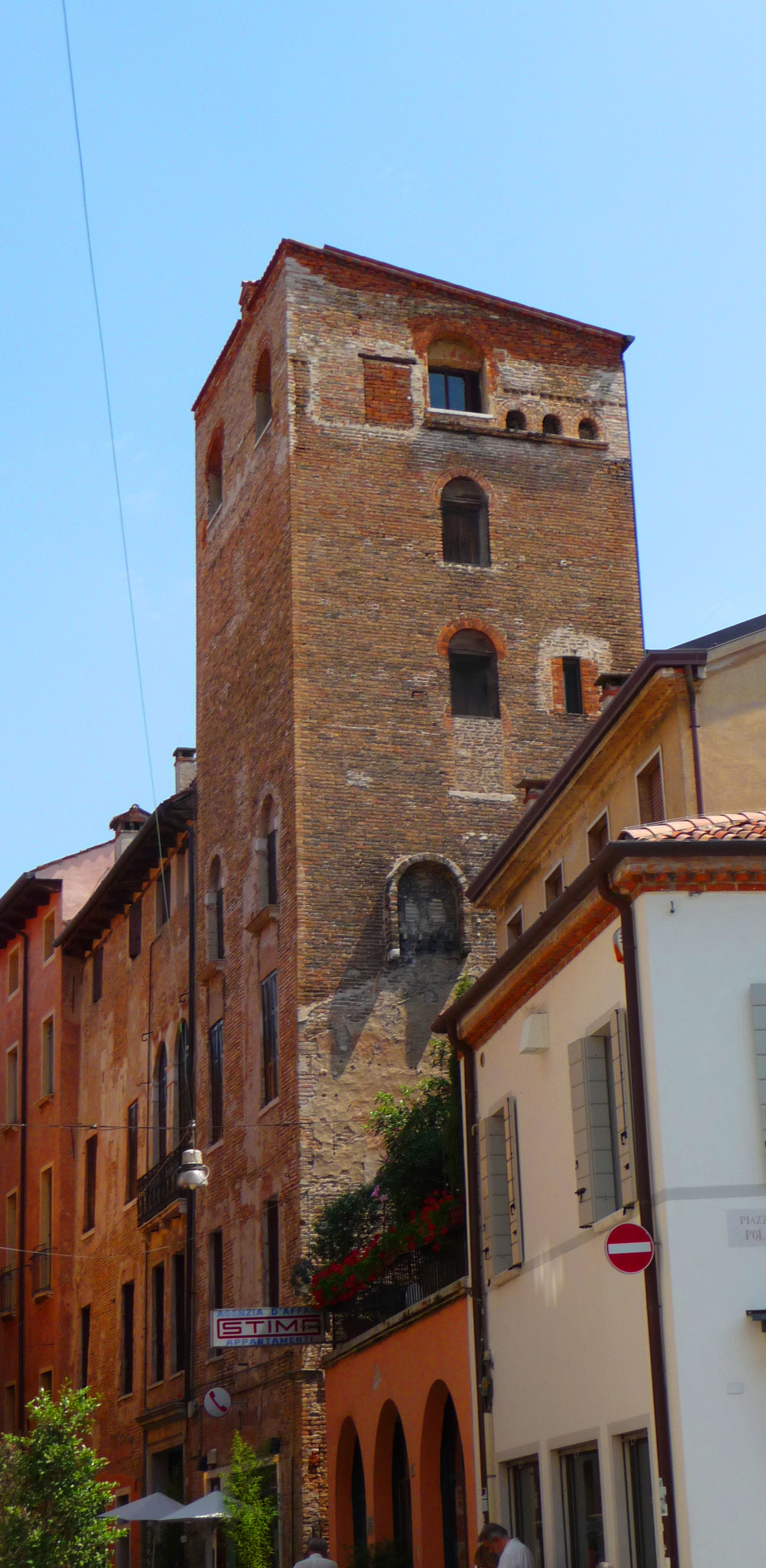 medieval tower in via paris bordon in treviso